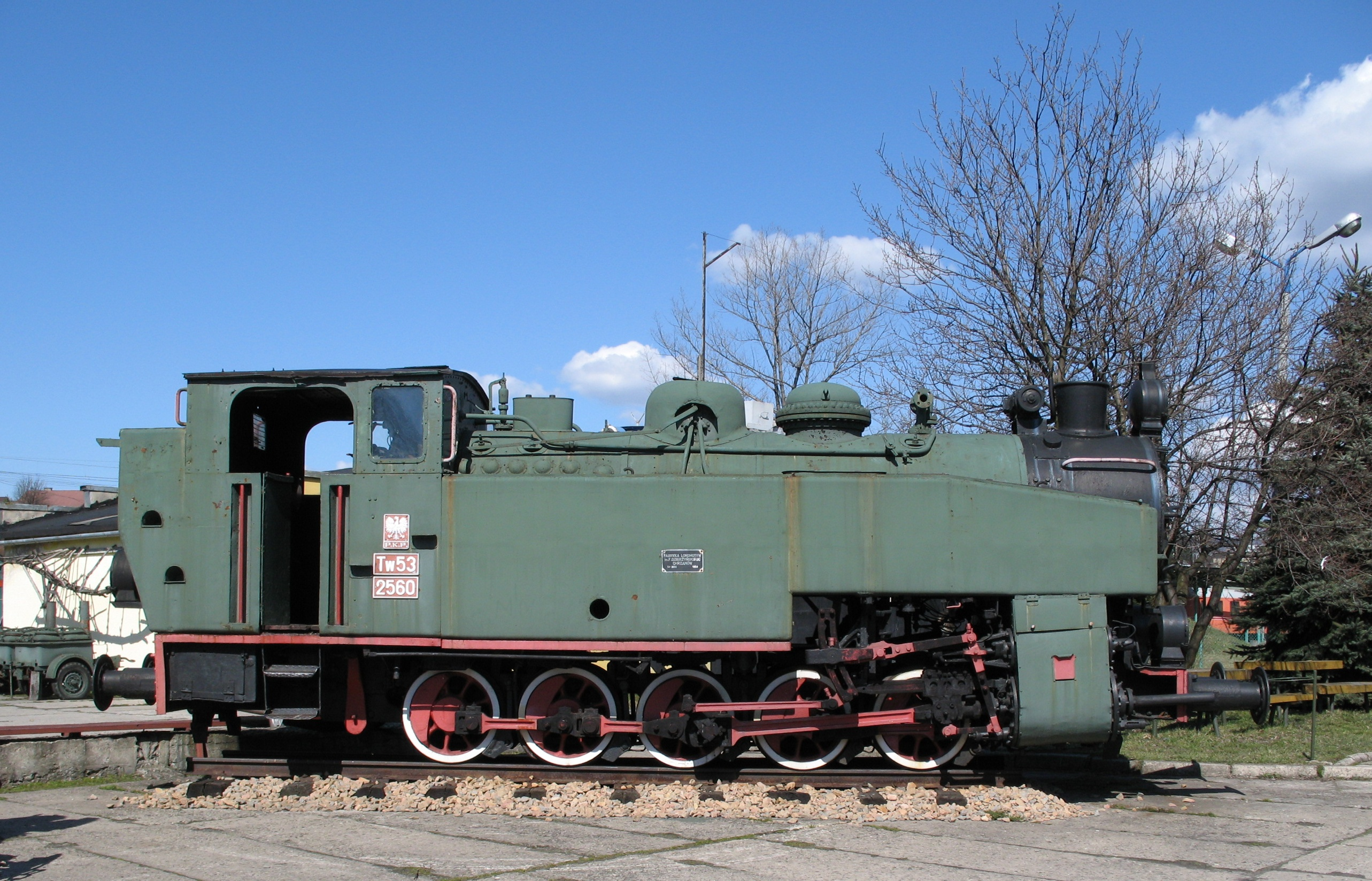 Tw53 locomotive in Chabówka railway museum, Poland